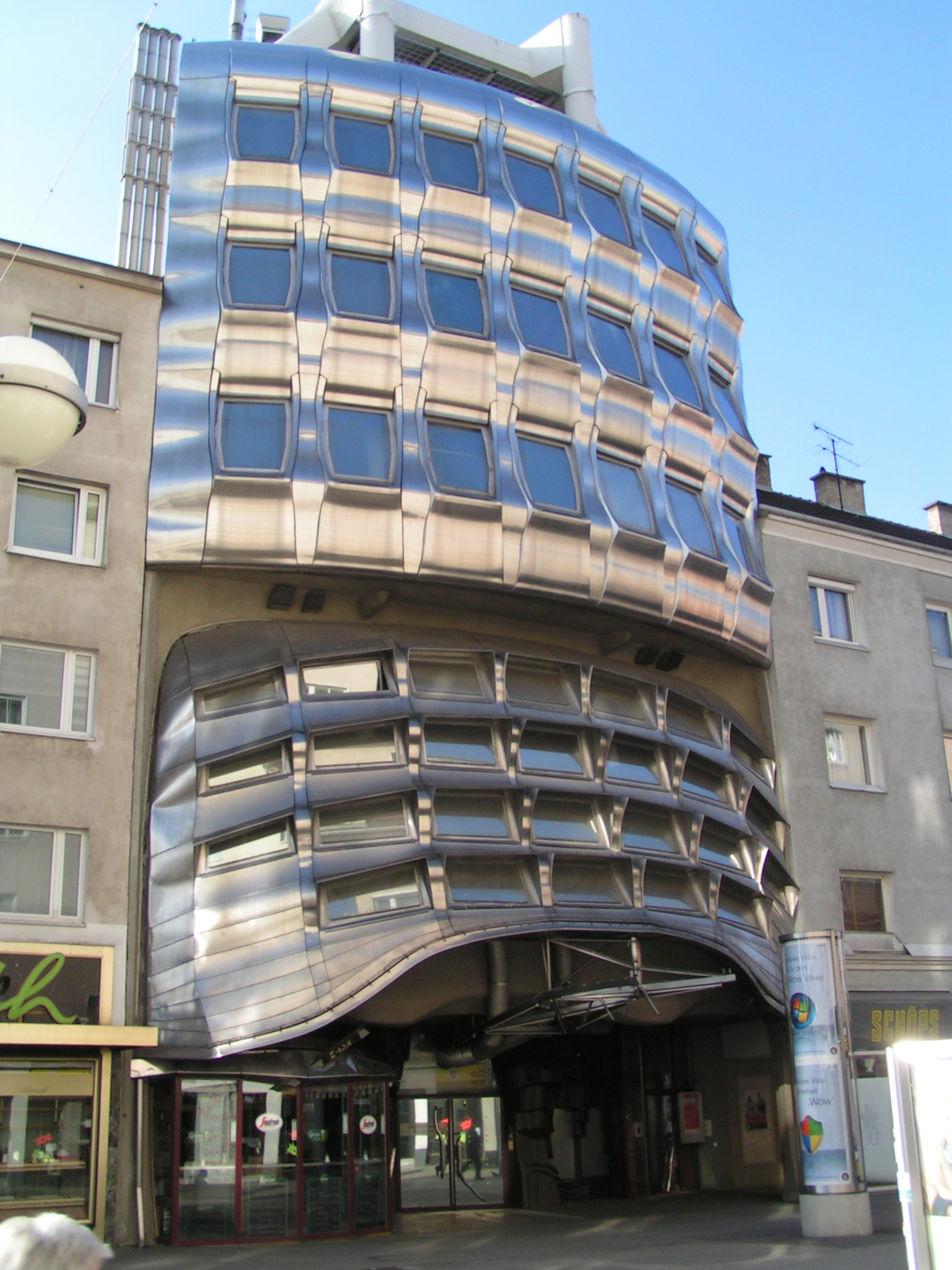 Former Zentralsparkassenfiliale Favoritenstrasse in Vienna, District Favoriten. The building was planned by Günther Domenig in 1979.